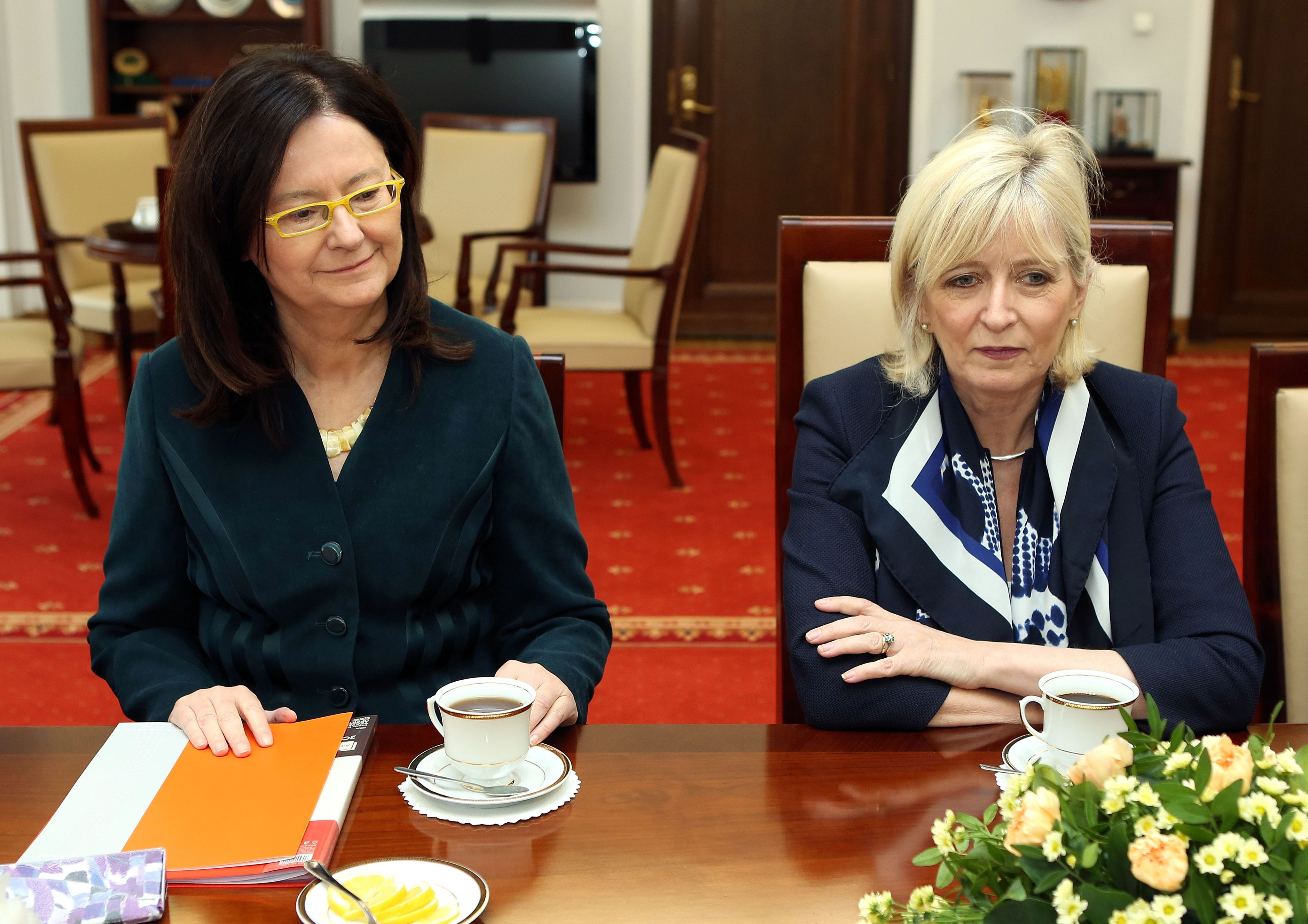 Irena Lipowicz and Emily O'Reilly in the Polish Senate